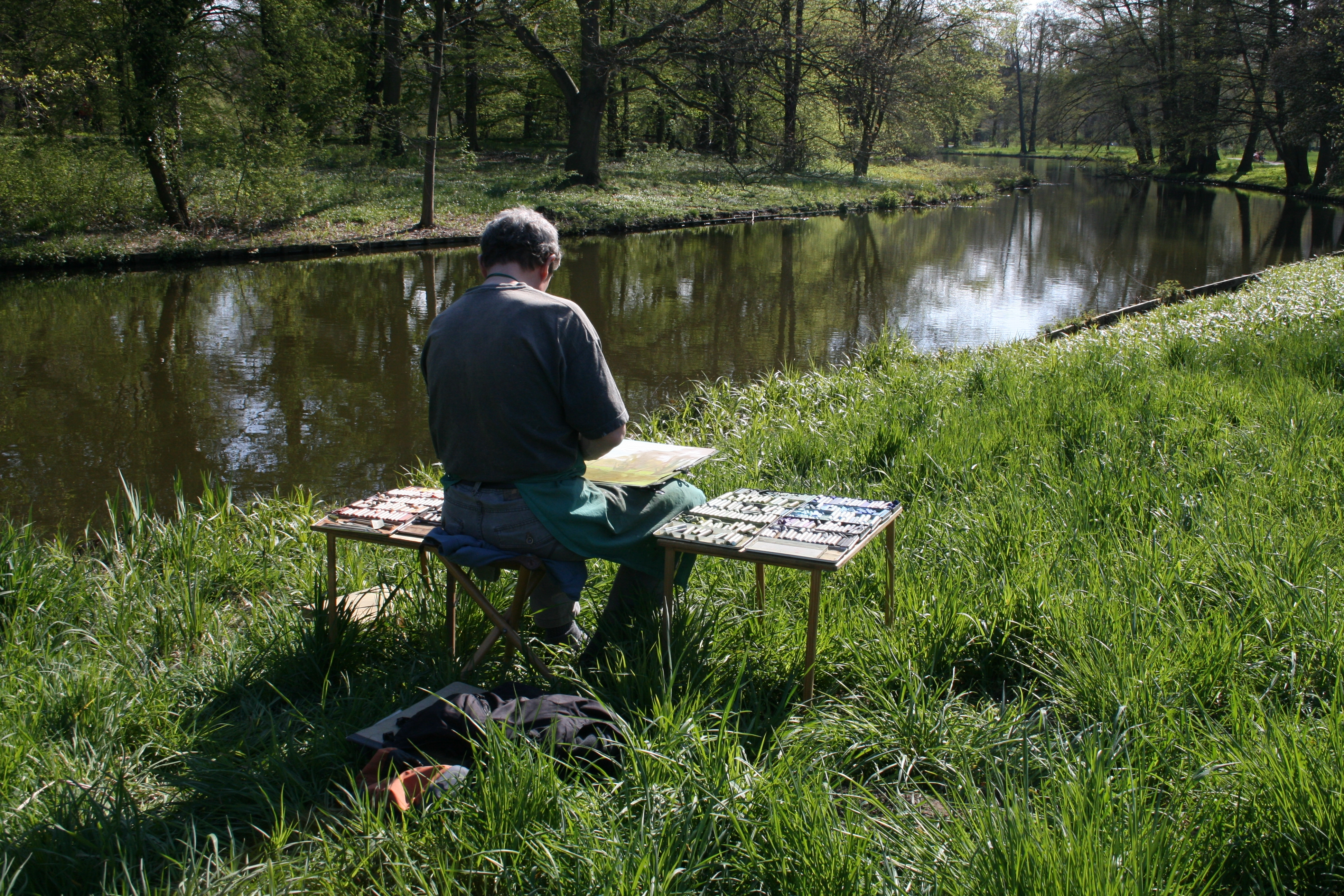 Pastel landscape painting en plein air at park of Charlottenburg castle, Berlin, Germany